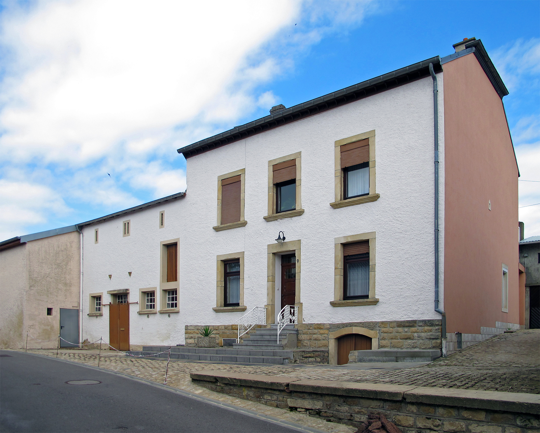 House in Erpeldange, Luxembourg, where Paul Noesen was born